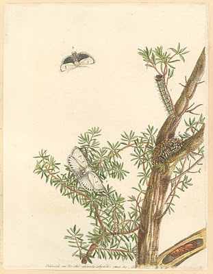 Cryptophasa pultenae, Pl. 13, Lewin 1805, pre-publication print, State Library of NSW